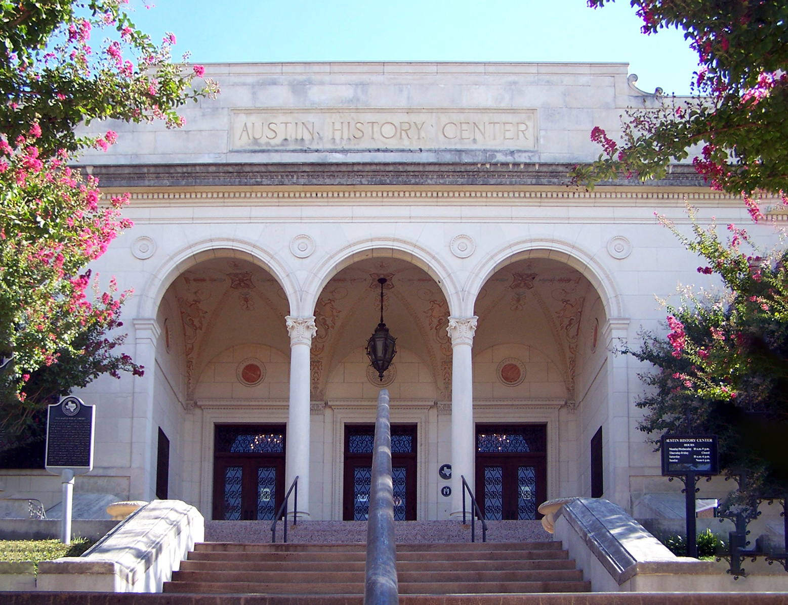 The Austin History Center, Austin, Texas, United States. The structure was listed on the National Register of Historic Places on May 6, 1993.